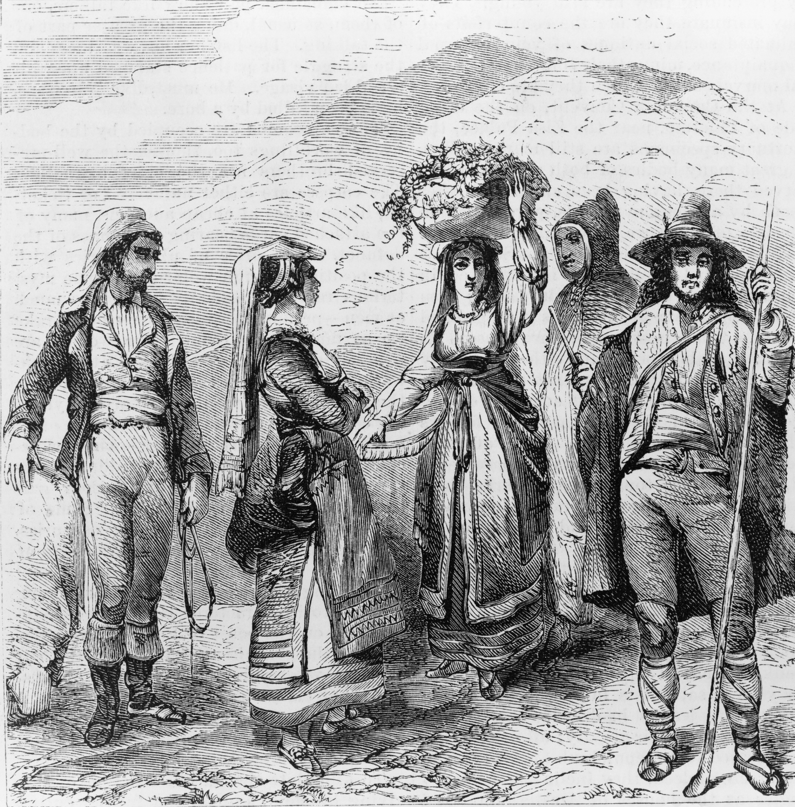 Five people in traditional dress on mountain, in Sicily, Italy.